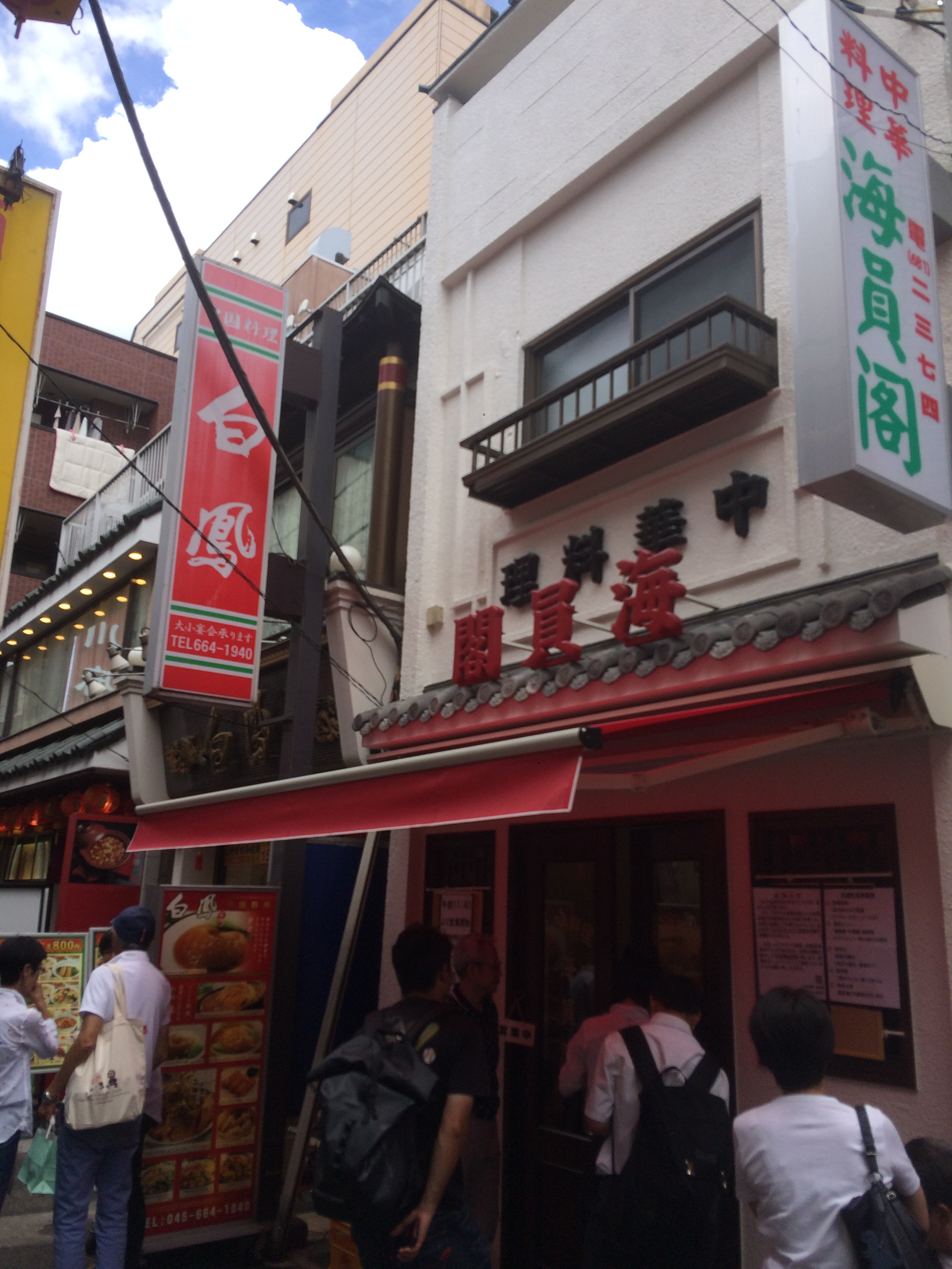 Kaiinkaku Chinese resaurant, Chinatown, Yokohama. Phitographed 2018-07-08